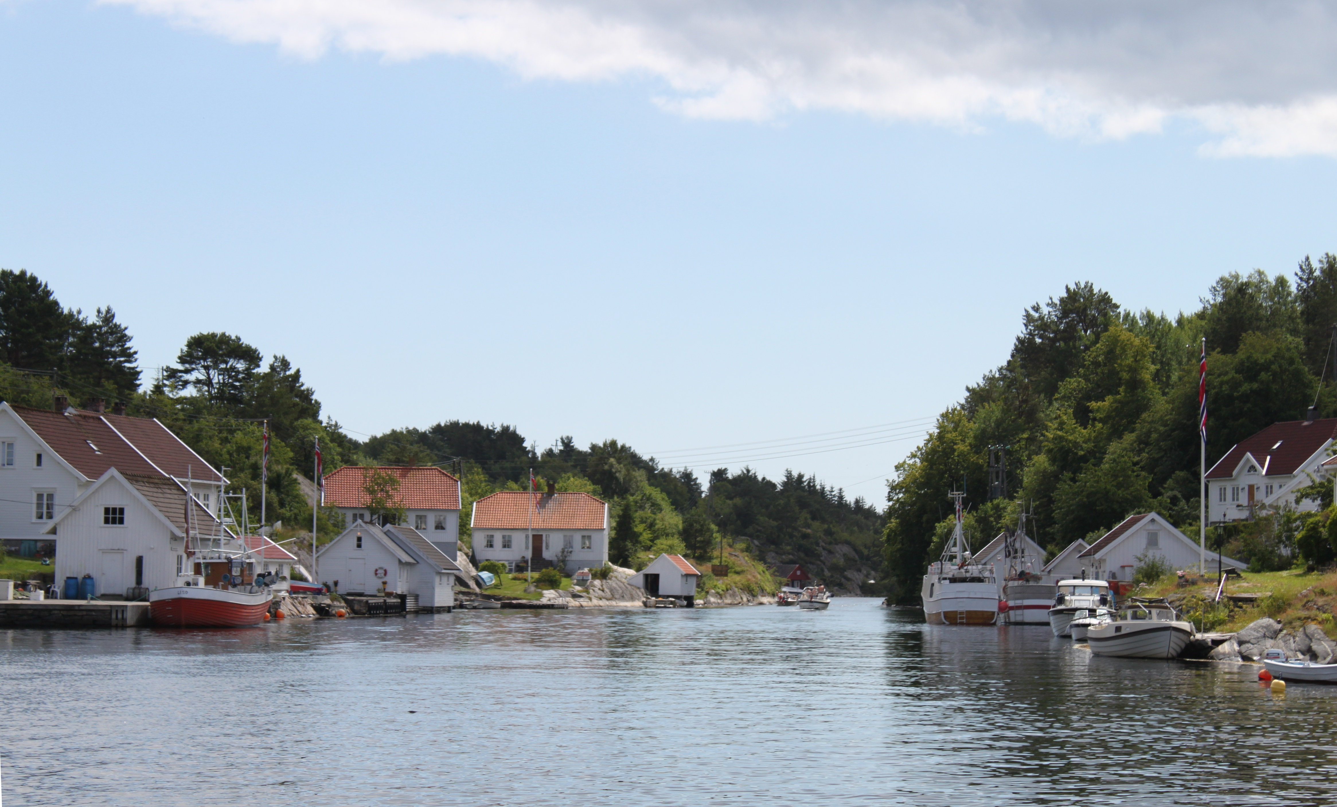 Image from Skippergada, Randesund, in Kristiansand (Norway)